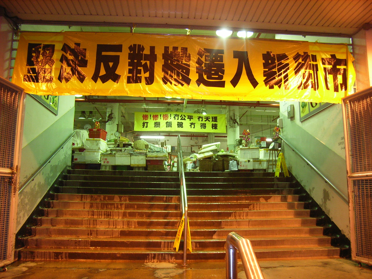 Wanchai Market at 264 Queen's Road East, Wan Chai, Hong Kong By KennethTom